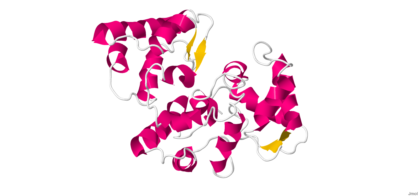 Calbindin 2G9B